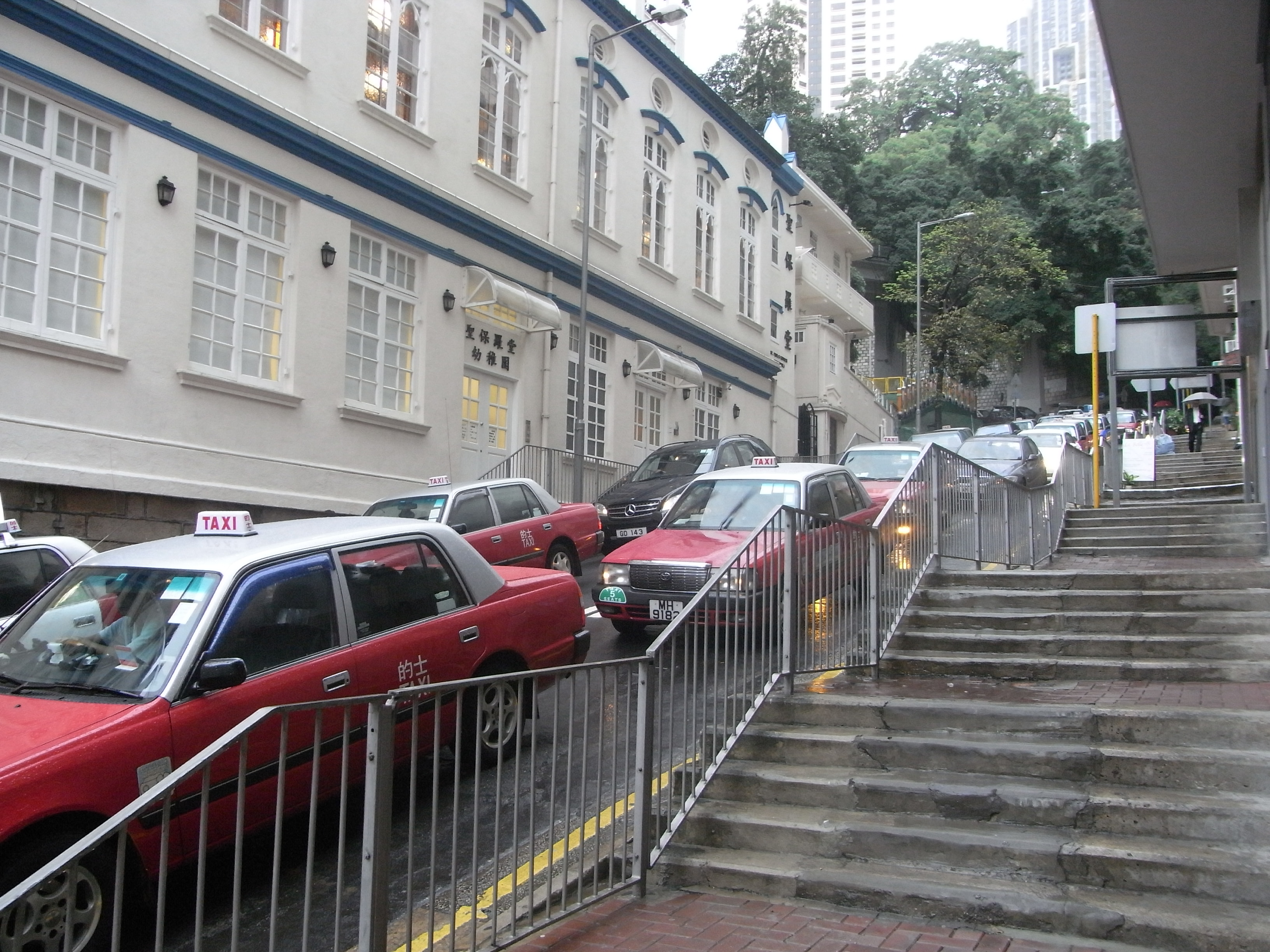 中環己連拿利